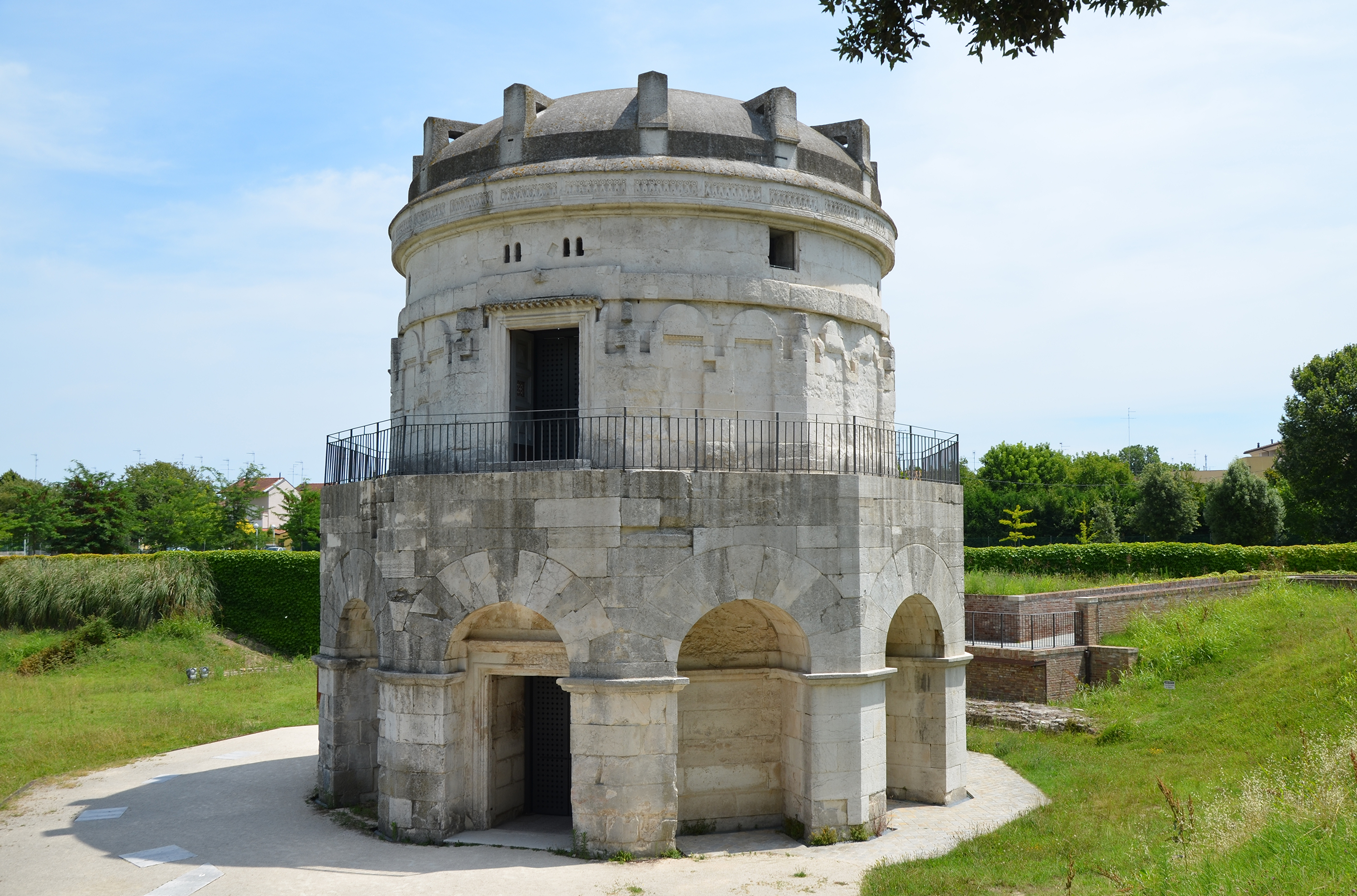 Mausoleum of Theoderic, built in 520 AD by Theoderic the Great as his future tomb, Ravenna, Italy